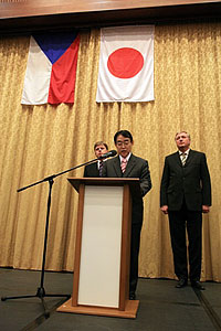 Miloslav Vlček, Speaker of the Chamber of Deputies, and Mirek Topolánek, Prime Minister, attended the Reception to Celebrate the Emperor's Birthday with Hideaki Kumazawa, Ambassador to the Czech Republic, at Hilton Prague in Prague City on December 7, 2006.